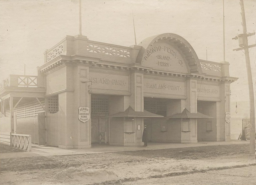 Island ferry wharf of the Toronto Ferry Company, on Lake Street east of Bay Street. The building was destroyed by fire in 1907. Toronto, Ontario, Canada.